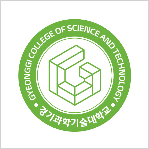 This emblem is college's ui